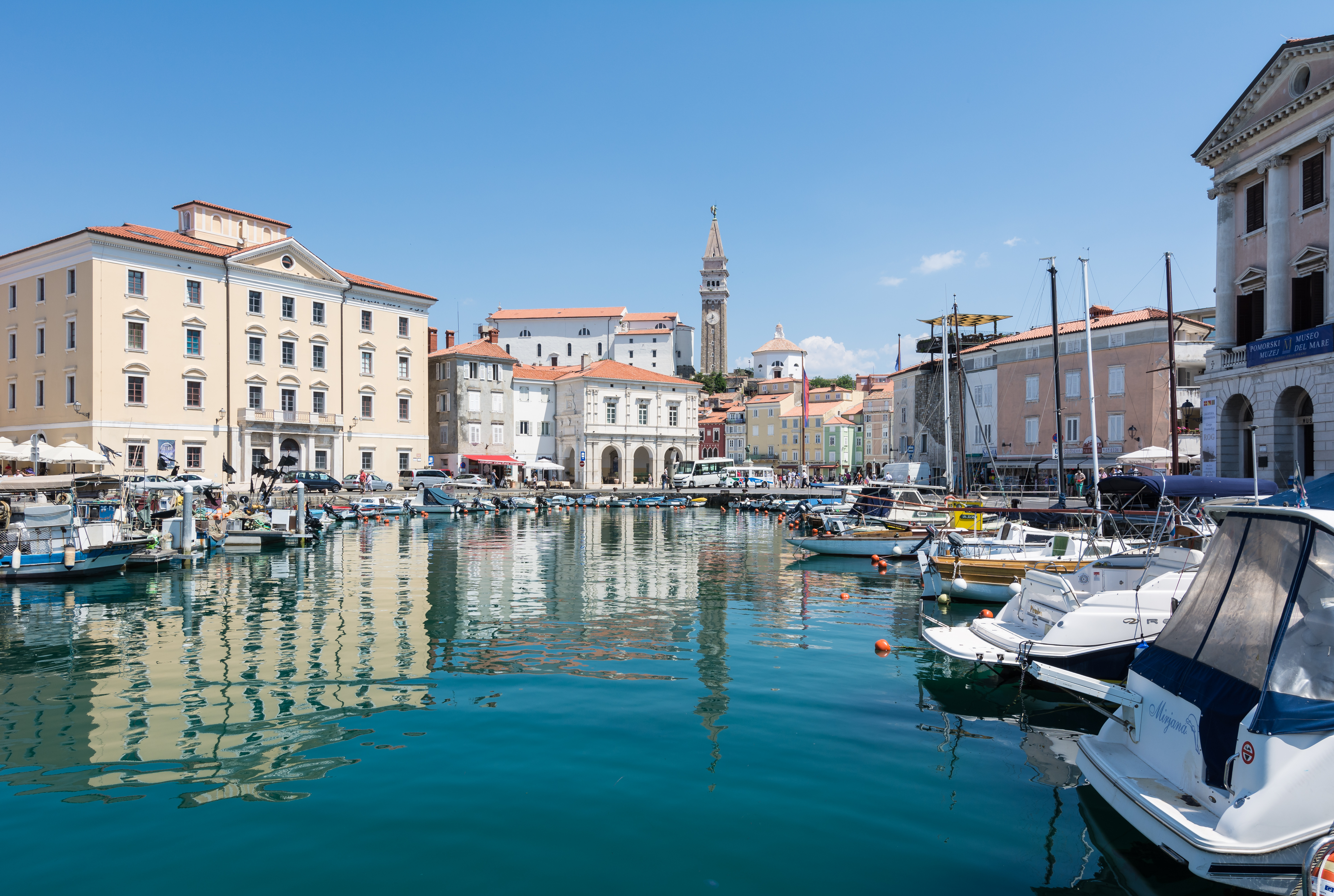 The church of St. George and it´s baptistery seen from the harbour of Piran.